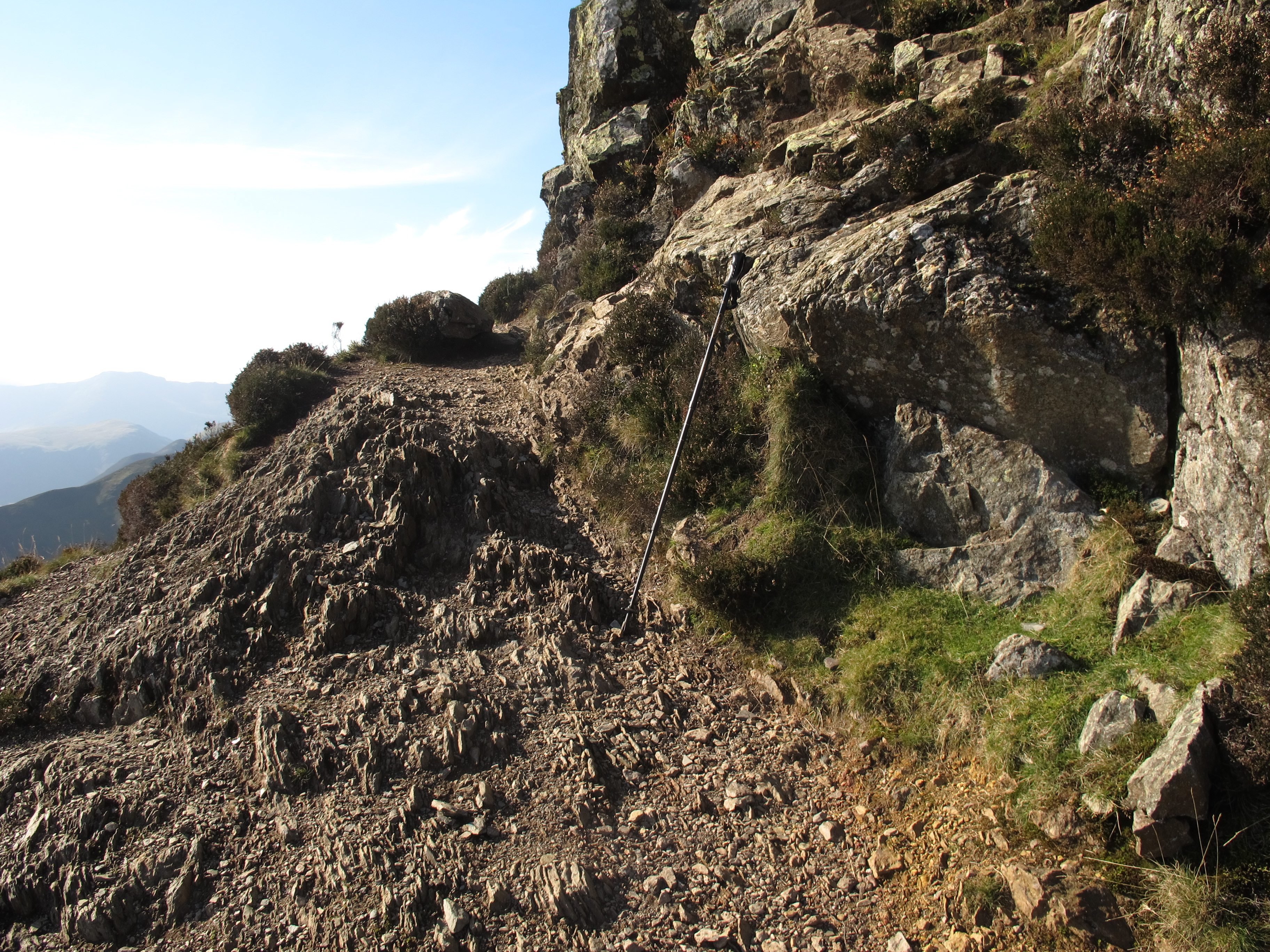 Faulted contact between sandstone olistolith of the Buttermere Fm (below) and Crummock Water Aureole (above) just below the crags on Causey Pike, part of the Causey Pike Fault Zone. Walking pole 1.2 m long for scale